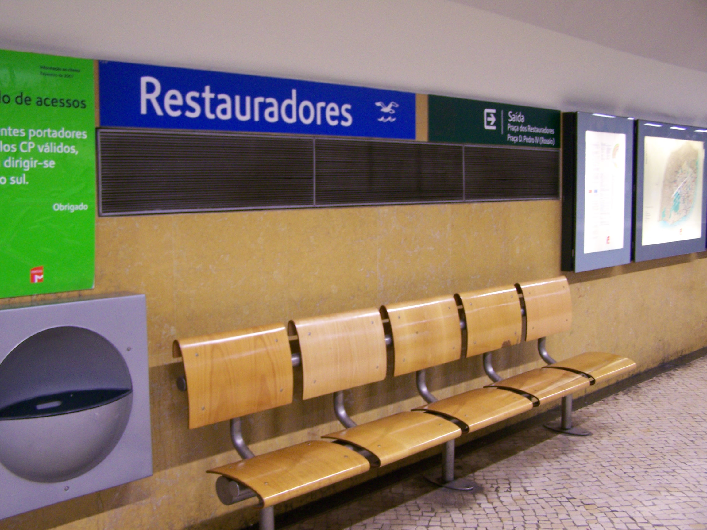 bench at the underground "Restauradores", Lisbon, Portugal